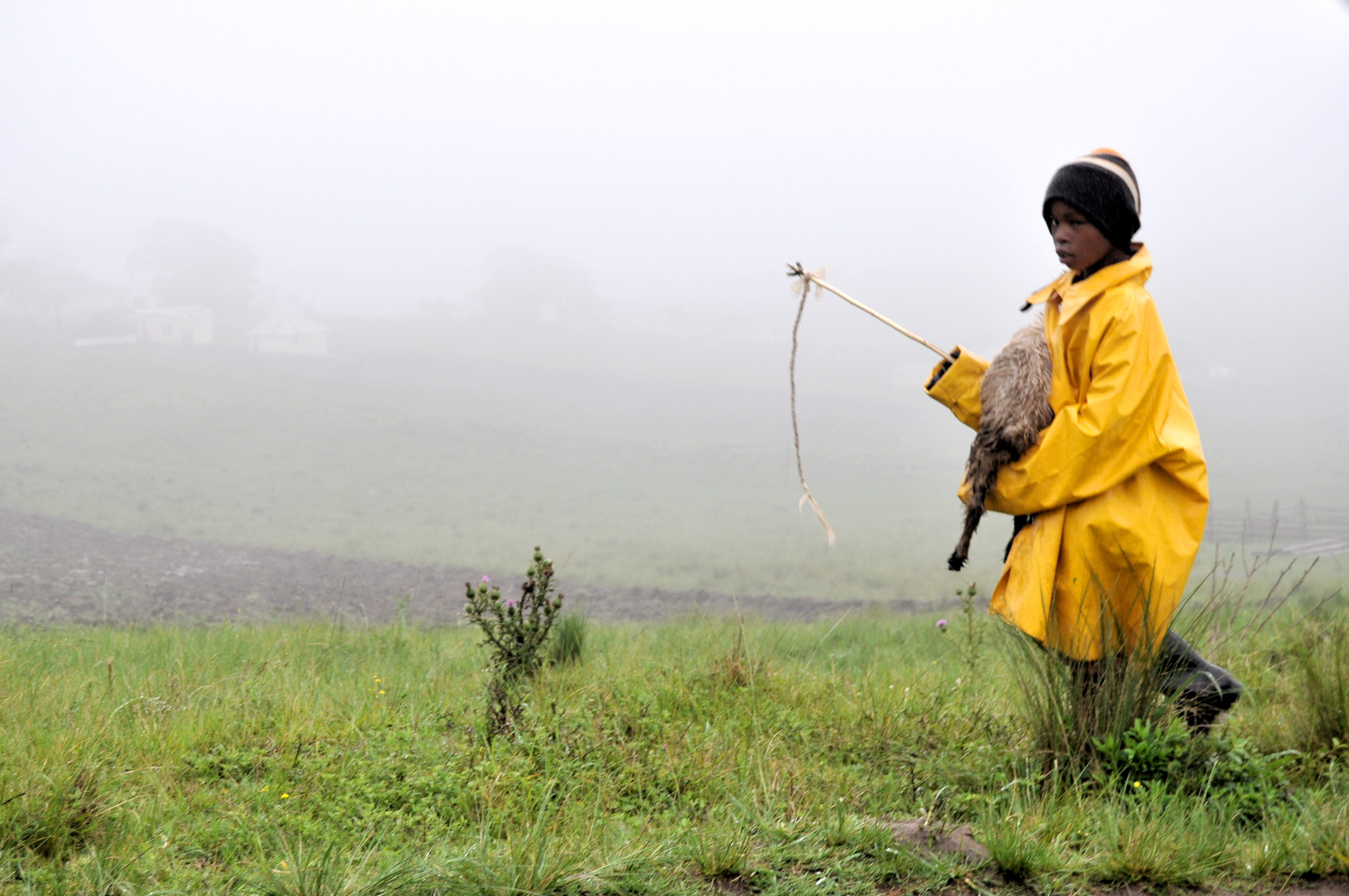 Many families in rural South Africa allow their cows, goats and sheep to roam free in the grasslands around their dwelling place. This boy is sheltering a wounded animal (perhaps a baby goat or sheep) while walking in the rain. This is an image with the theme "Africa on the Move or Transport" from: South Africa